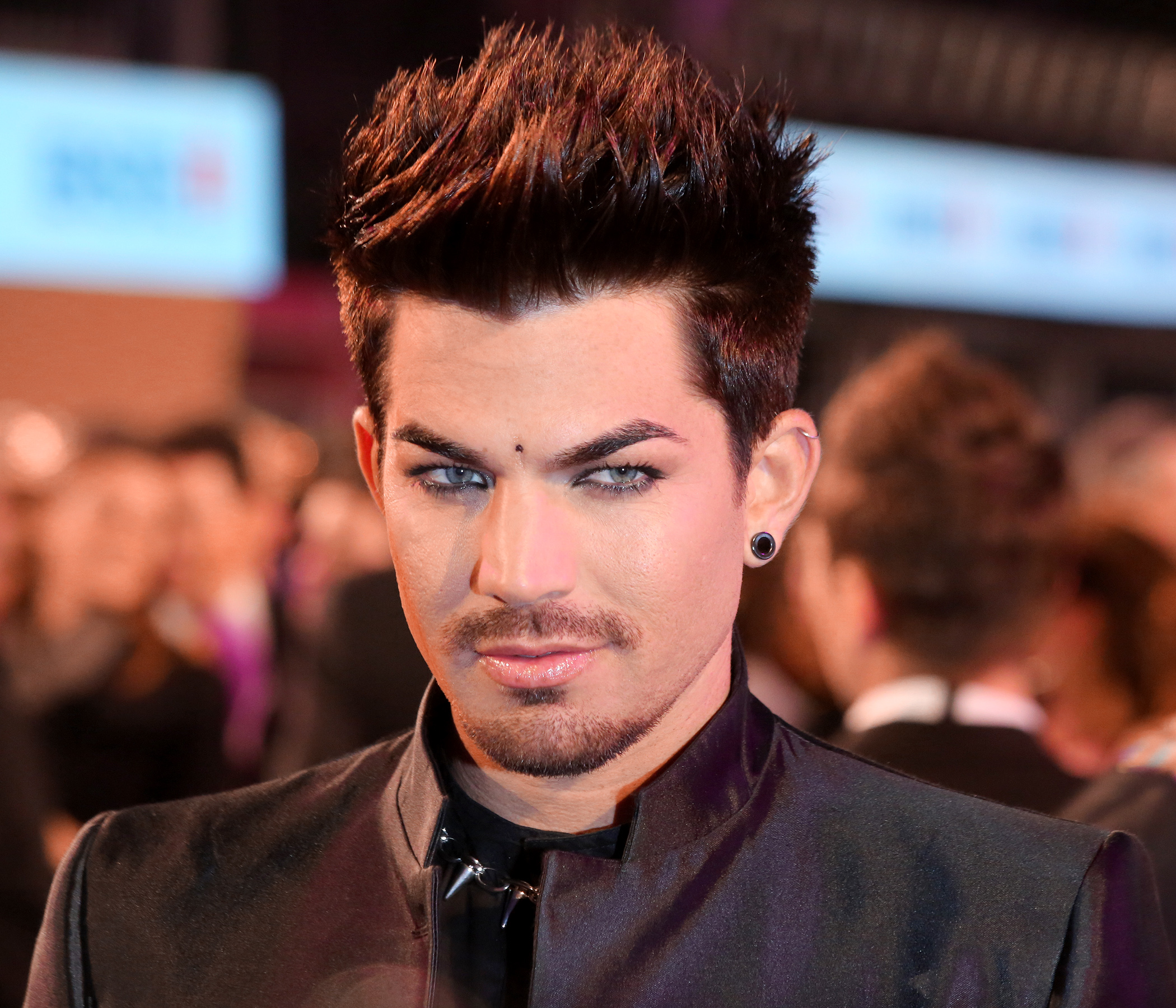 Adam Lambert on the 'magenta carpet' at Life Ball 2013 at the square in front of the city hall of Vienna, Vienna, Austria.